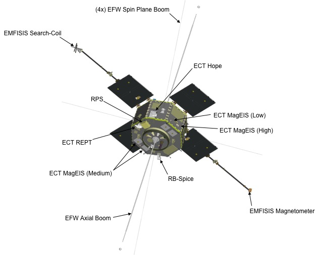 Radiation Belt Storm Probe (RBSP) drawing